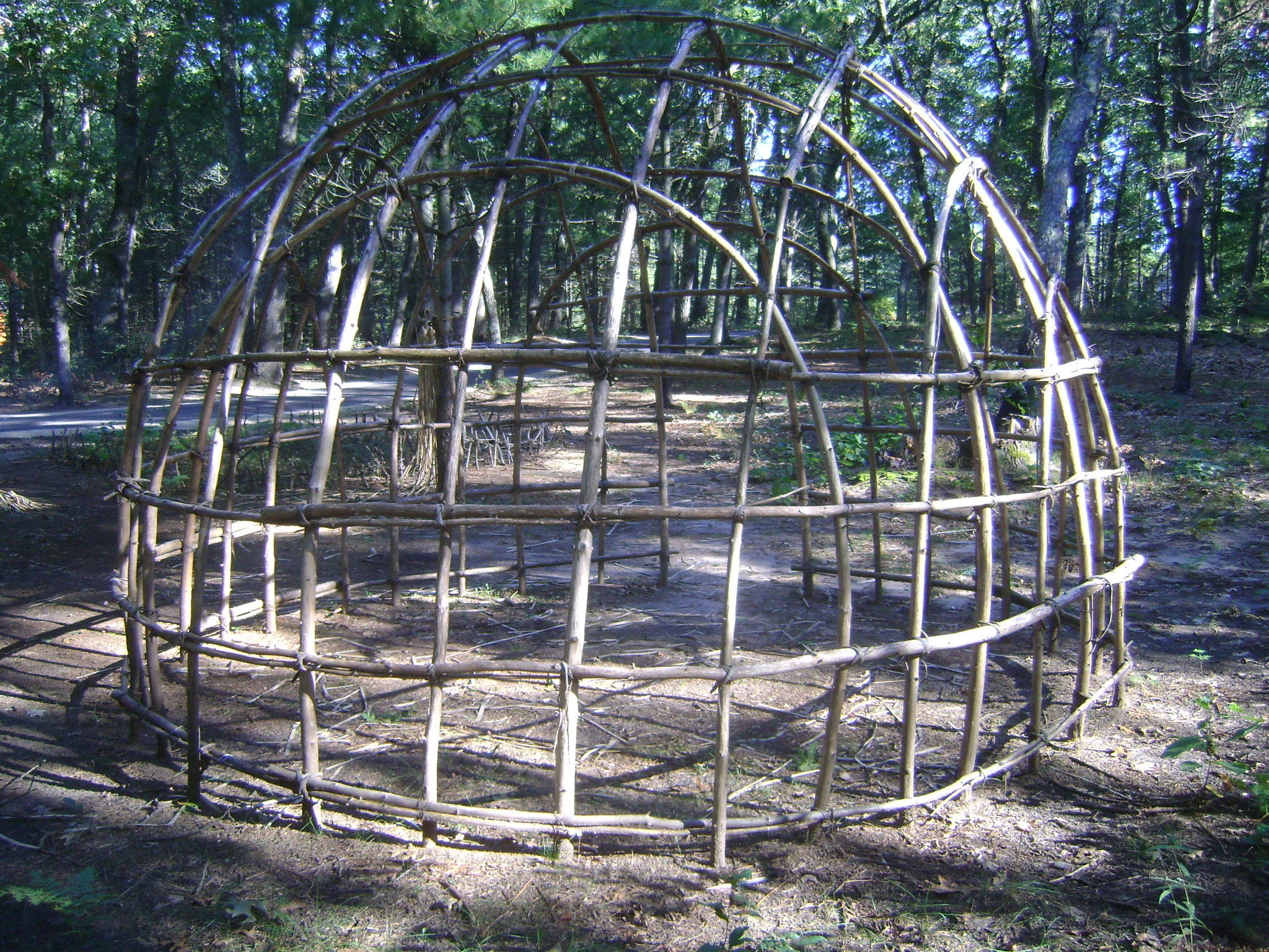 Wigwam skeleton representation at Wigwam Village of Michigan Heritage Park